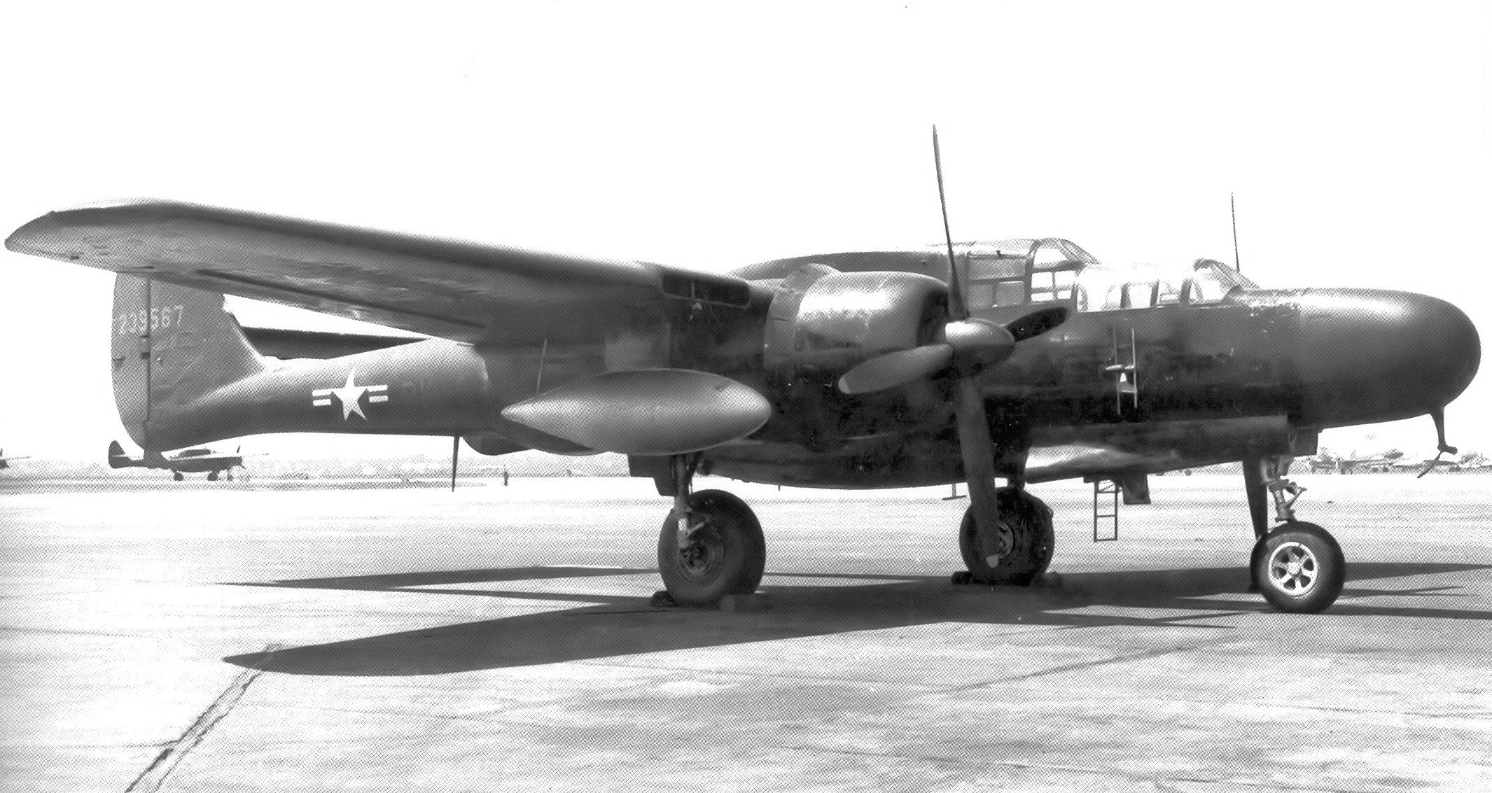 5th Fighter Squadron Northrop P-61B-10-NO Black Widow 42-39567 Aircraft was sent to reclamation at Brookley Field, Alabama Jun 22, 1949